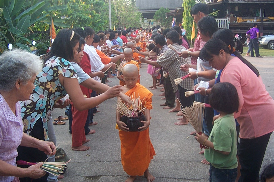 Buddhist worship, Uttaradit, Thailand: the Buddhist is puttinging food into the bowl of the Buddhist priest to worship a novitiate who ordains new. Uttaradit,Thailand 2006